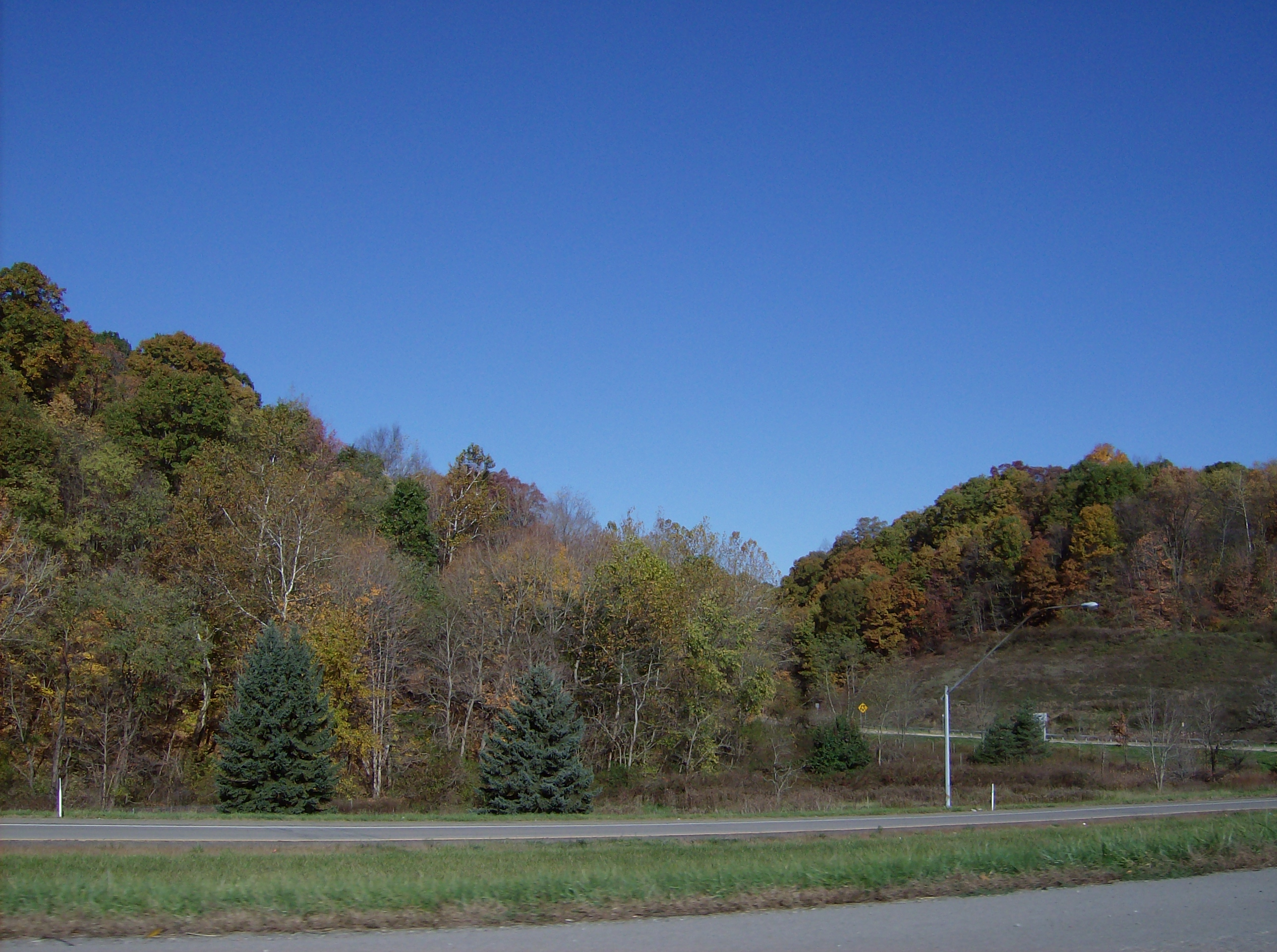 At the Natrona Heights exit from Route 28 in Harrison Township, Allegheny County, Pennsylvania, United States. Picture taken looking northwest from the highway.